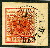 Würbenthal cancellation on KK 3 kreuzer issue 1850